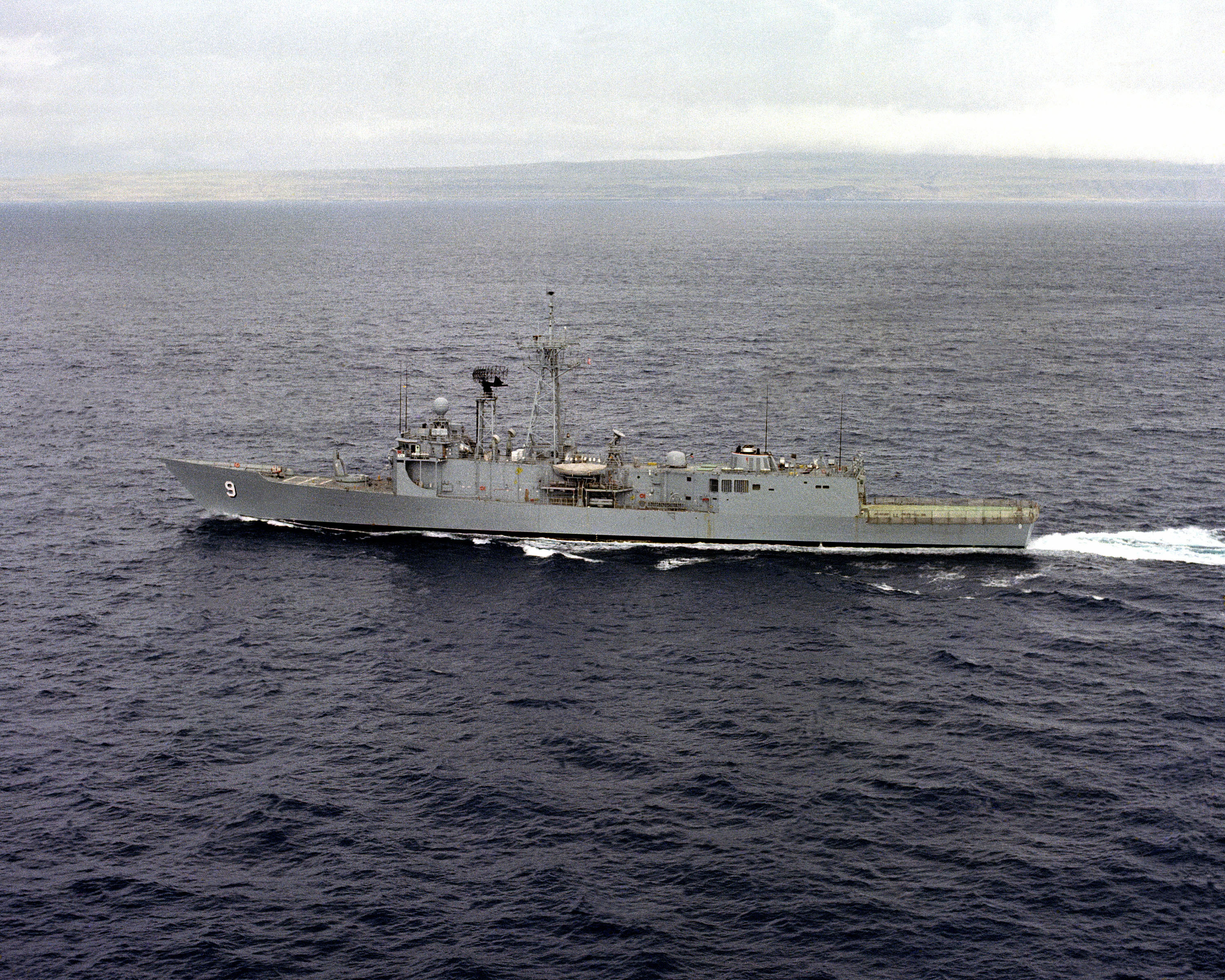 The U.S. Navy guided missile frigate USS Wadsworth (FFG-9) underway at sea on 29 April 1983.